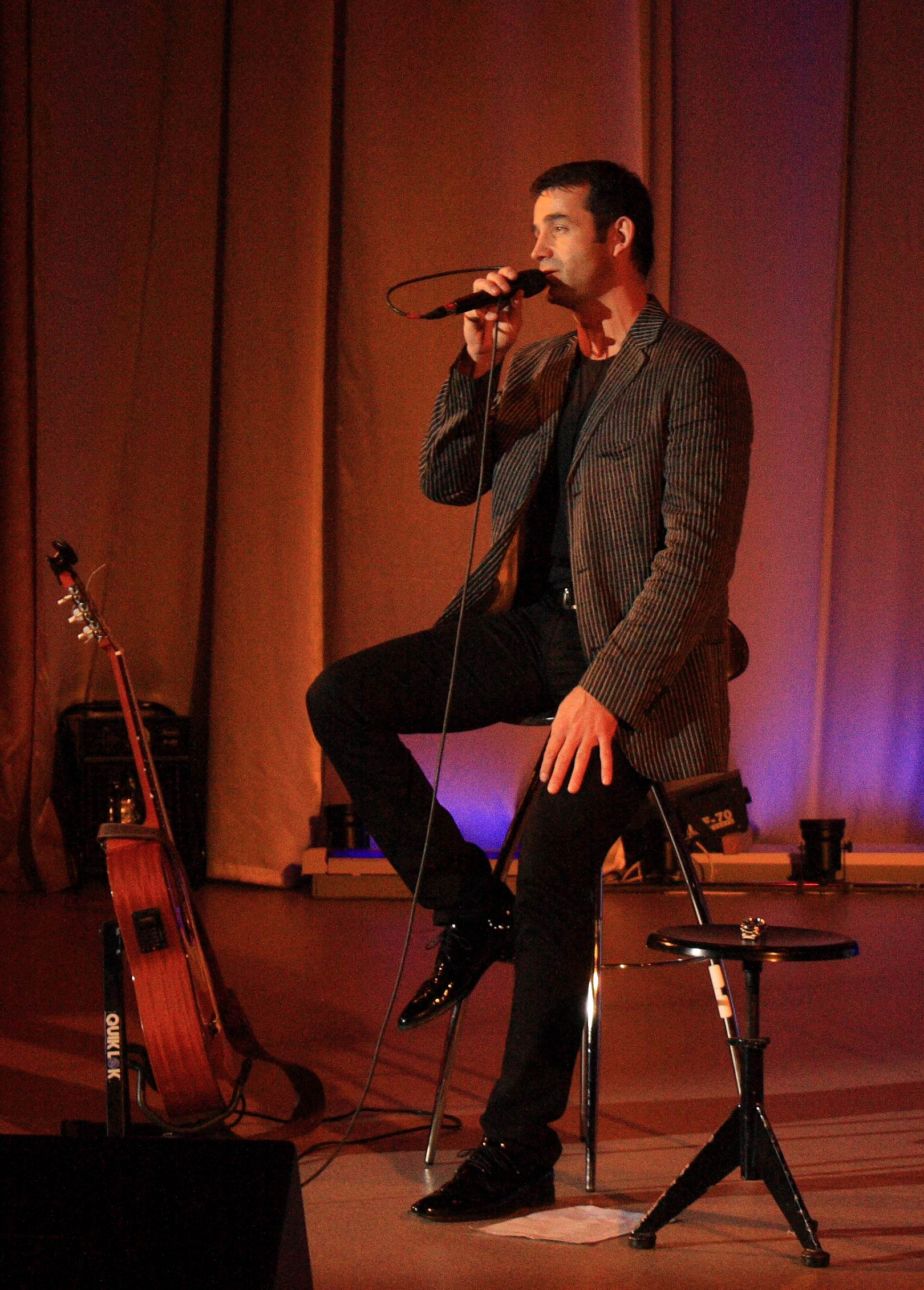 Dmitry Anatolyevich Pevtsov - is a Russian actor.